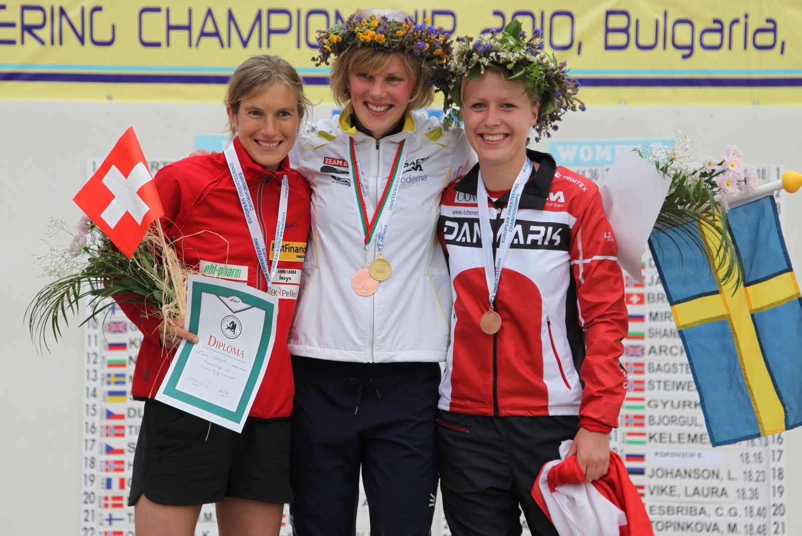 Helena Jansson, Simone Niggli, Maja Alm at European Orienteering Championships 2010